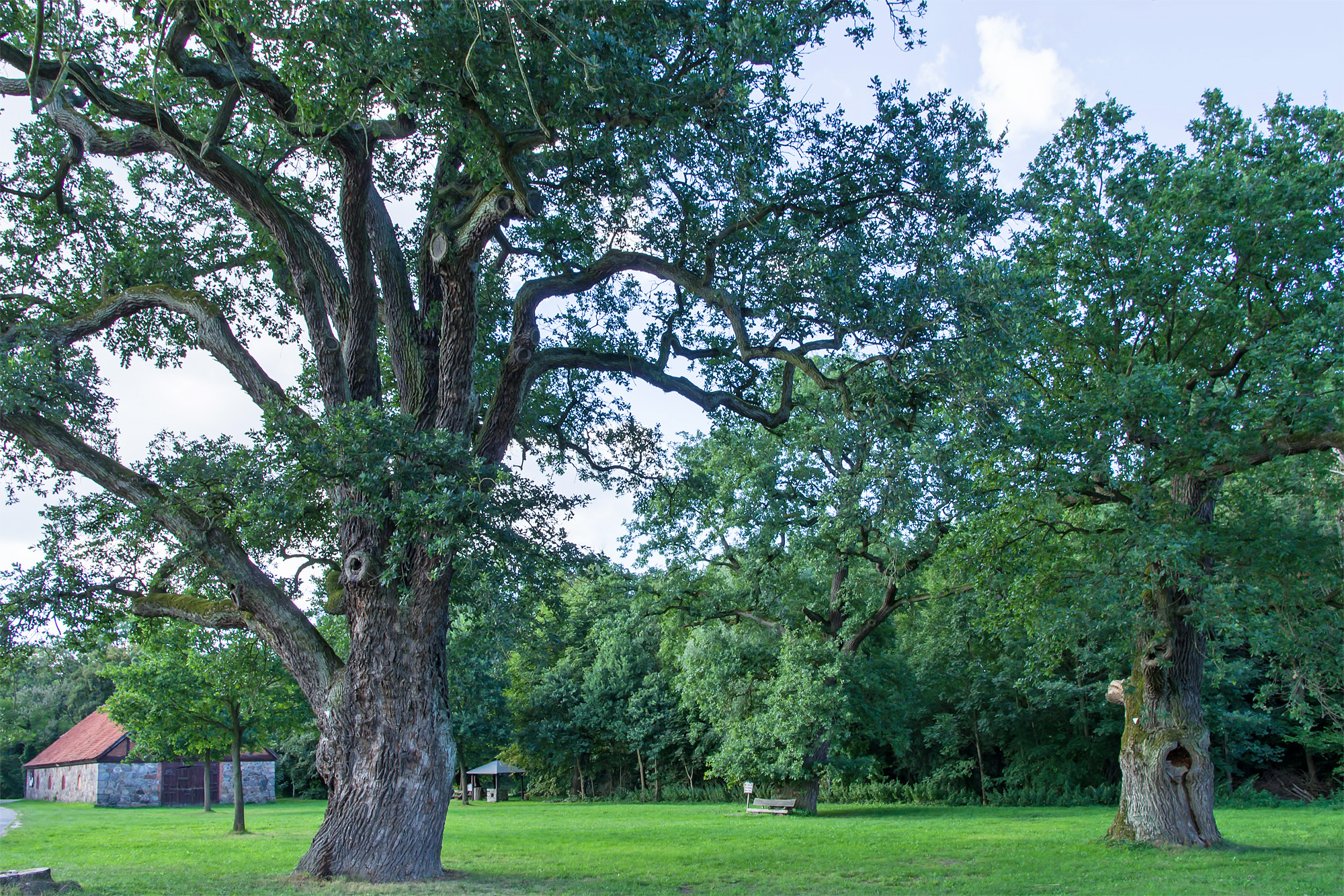 Natural monument "Group of three oaks" in the village Schnega (district Lüchow-Dannenberg, north-eastern Lower Saxony, Germany).